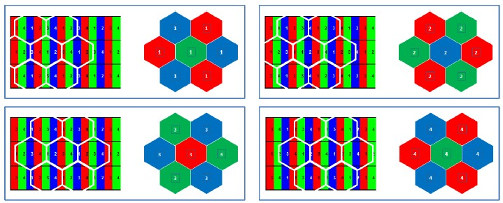 RGB pixel organization for 3D autostereoscopic video (brevet WWO9820392)